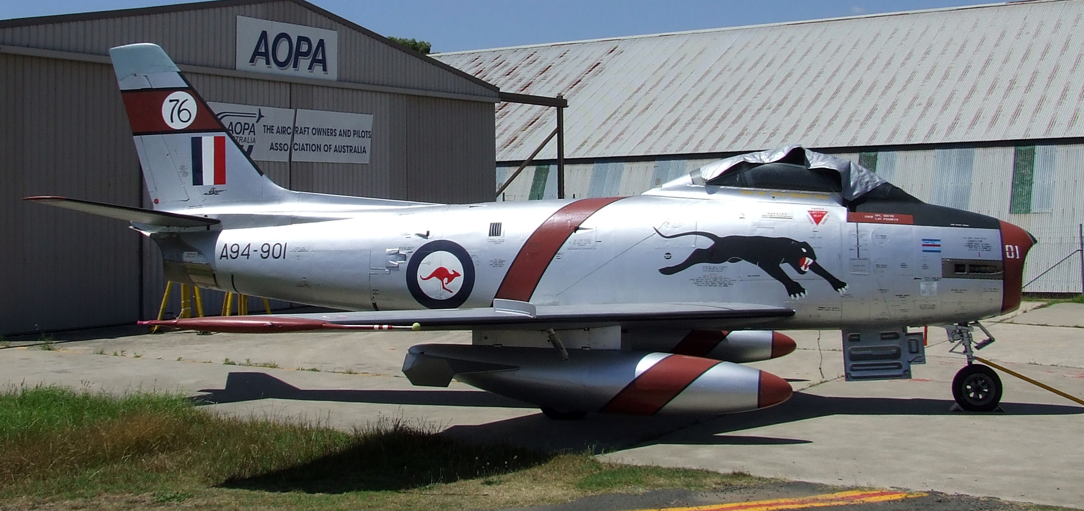 The first production CAC CA-27 Sabre is preserved in the markings of the RAAF 76 Squadron aerobatics team, the "Black Panthers". Digital photo of CA-27 A94-901 taken by YSSYguy at Bankstown Airport on 31 October 2006 & uploaded for use in the CAC Sabre article.